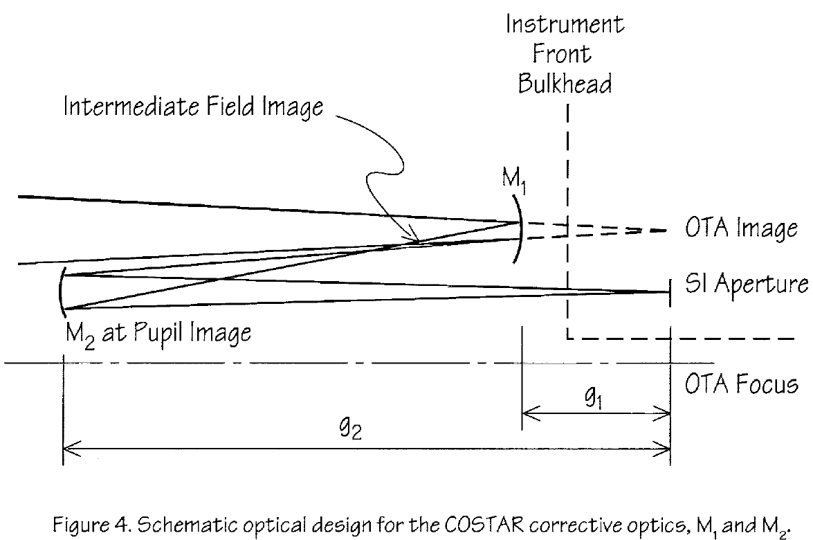 THE CORRECTOR SYSTEM proposed for the FOC, HRS and FOS consists of two mirrors, M1 and M2 (Figure 4). M1 forms an image of the OTA pupil at M2 and an image of the OTA field between the mirrors. The latter image is relayed by M2 to the SI aperture. M1 has the function of a field mirror and is a simple sphere. The correction of spherical aberra­tion is done by M2 and is fully equivalent to correction at the OTA primary mirror itself. This feature is unique among the SI-external optical corrector systems considered in this report. It has the advantage that the corrected field is free of coma.